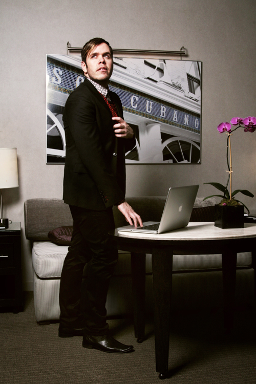 This is an updated 2009 photo of Perez Hilton. It is owned by Perez Hilton and hosted on his site for media use. The image can be found at This image is owned by Perez Hilton and is available to be used on Wikipedia and other media outlets.